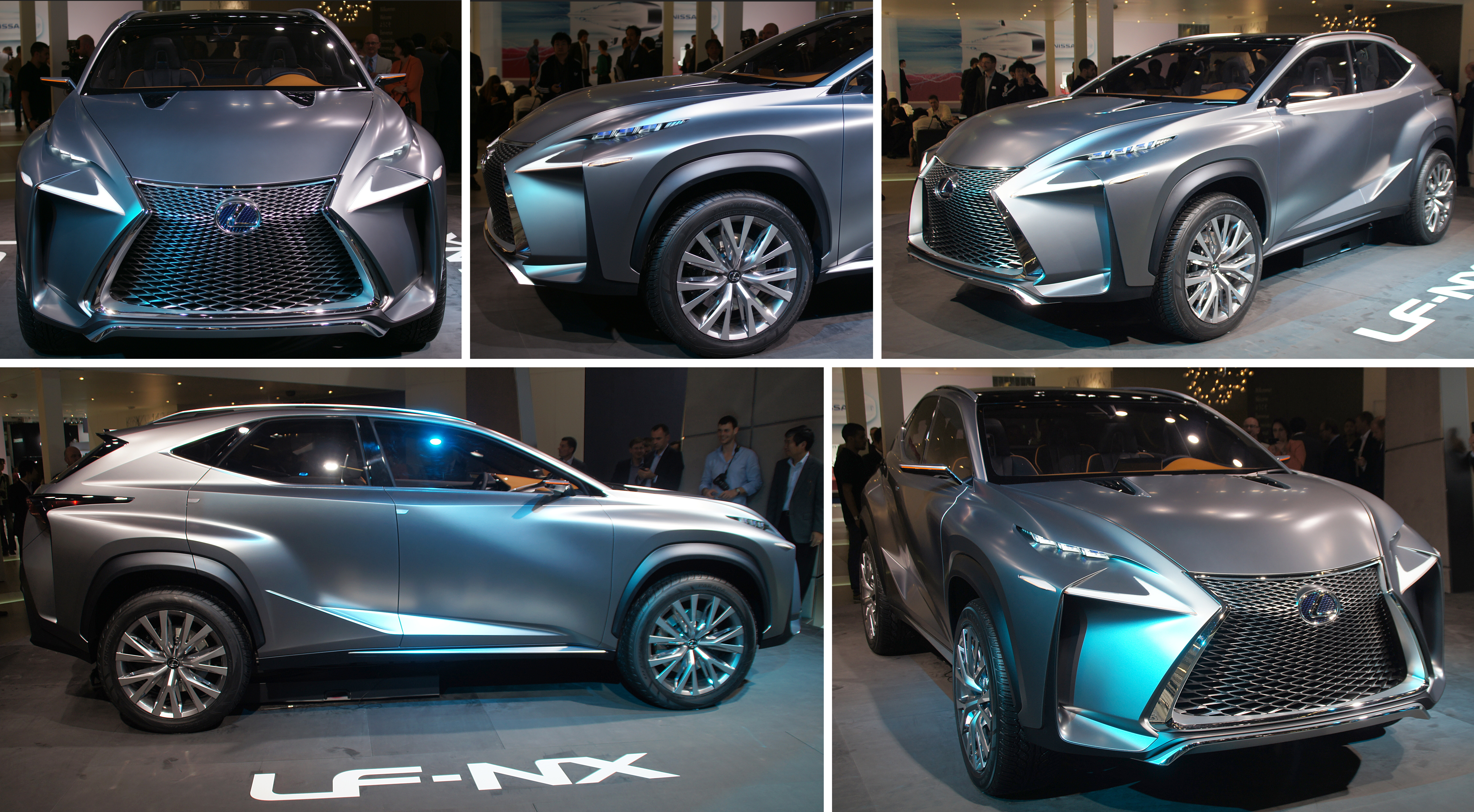 Lexus LF-NX SUV concept at Frankfurt Motor Show, 2013